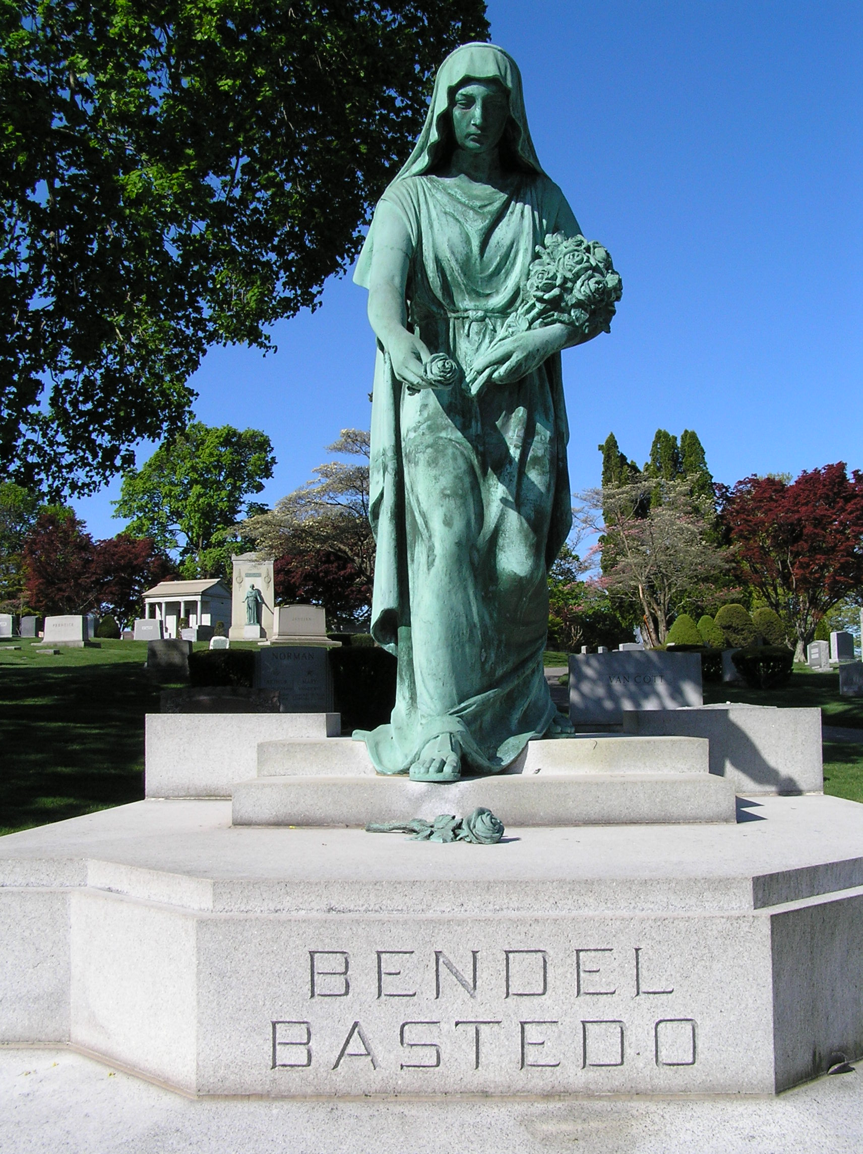 The memorial to Henri Bendel and Abraham Beekman Bastedo in Kensico Cemetery